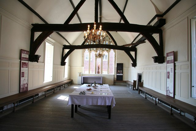 Banqueting Hall. Highest status room in St. Mary's Guildhall 996621